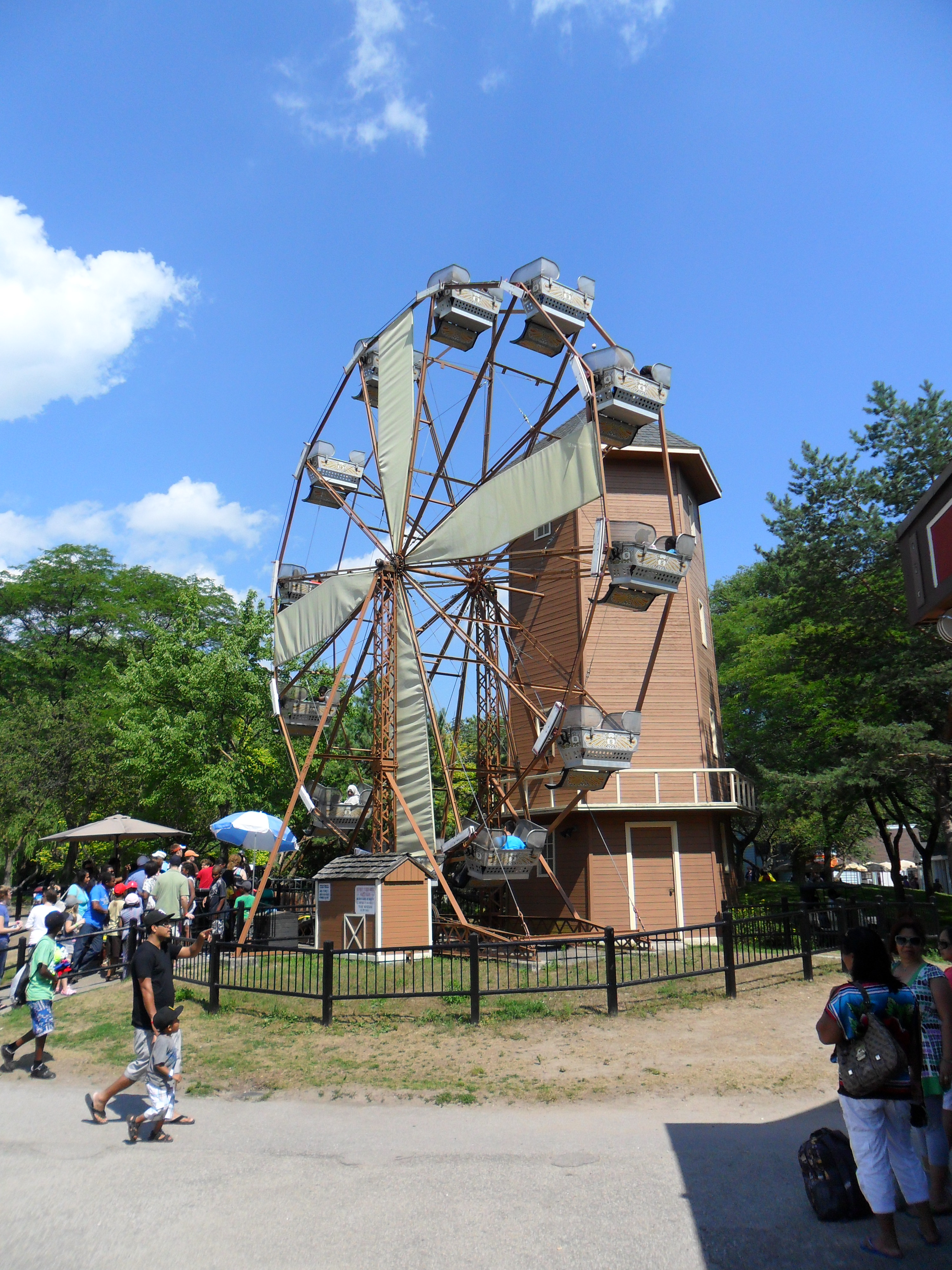 Ferris wheel at Centreville Amusement Park, Toronto, Canada